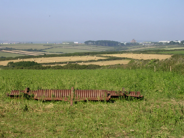 Fields north of Chyvarloe. This view is looking northeast from the National Trust car park near Chyvarloe, towards the naval base south of Helston.